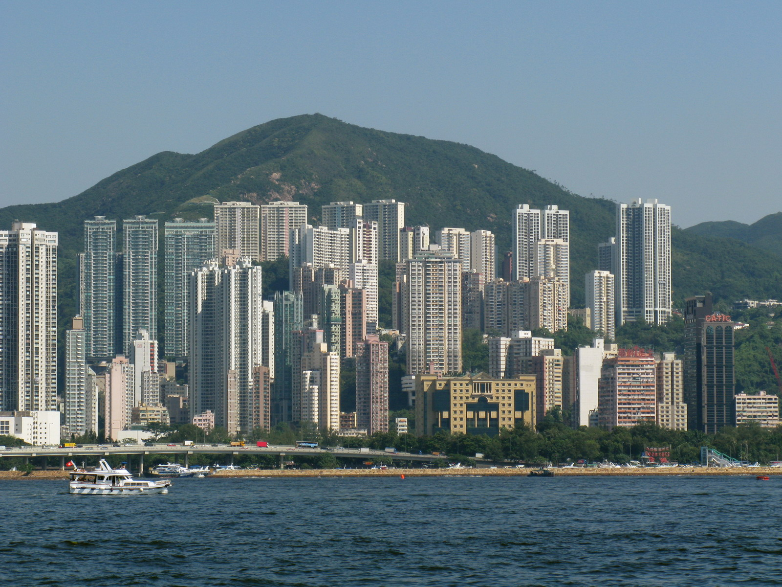 Jardine's Lookout & Tai Hang